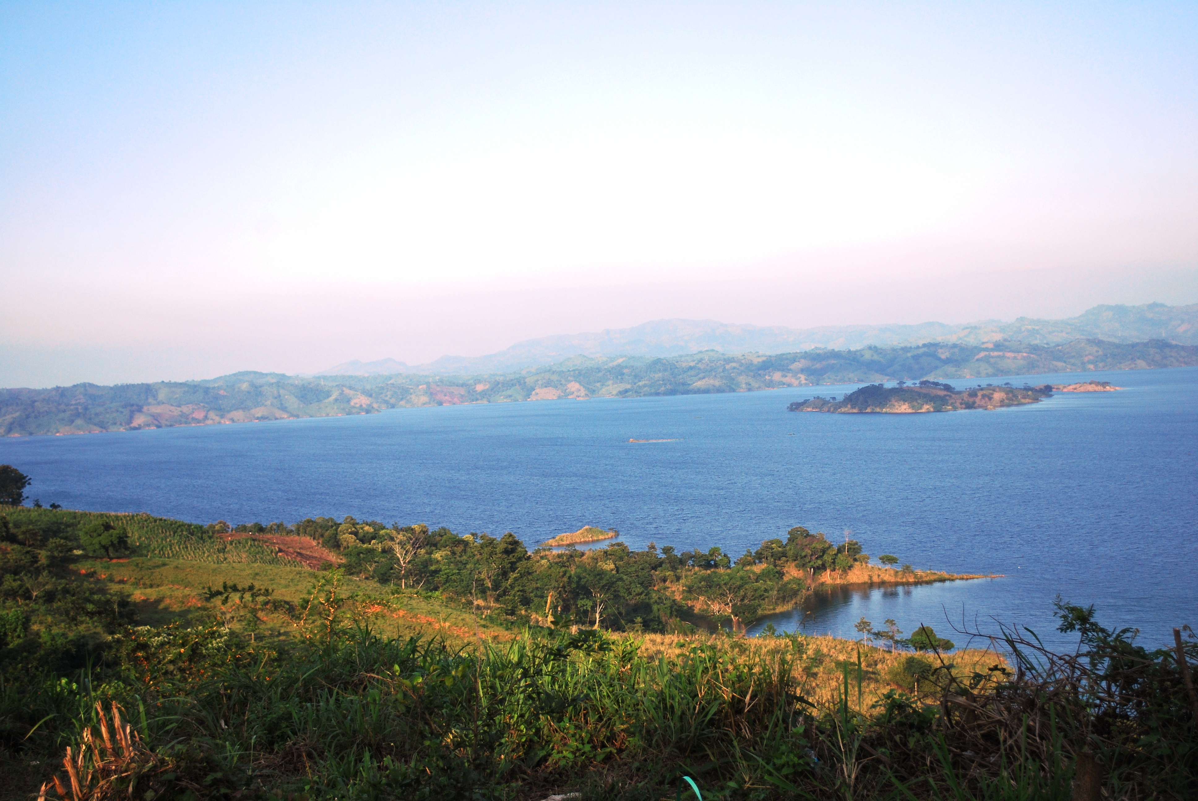 Looking over the Malpaso dam reservior in Chiapas